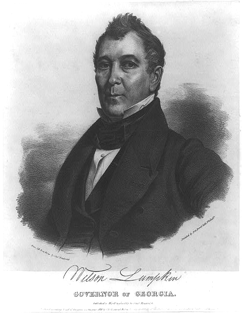 The governor of georgia Wilson Lumpkin (1783-1870)